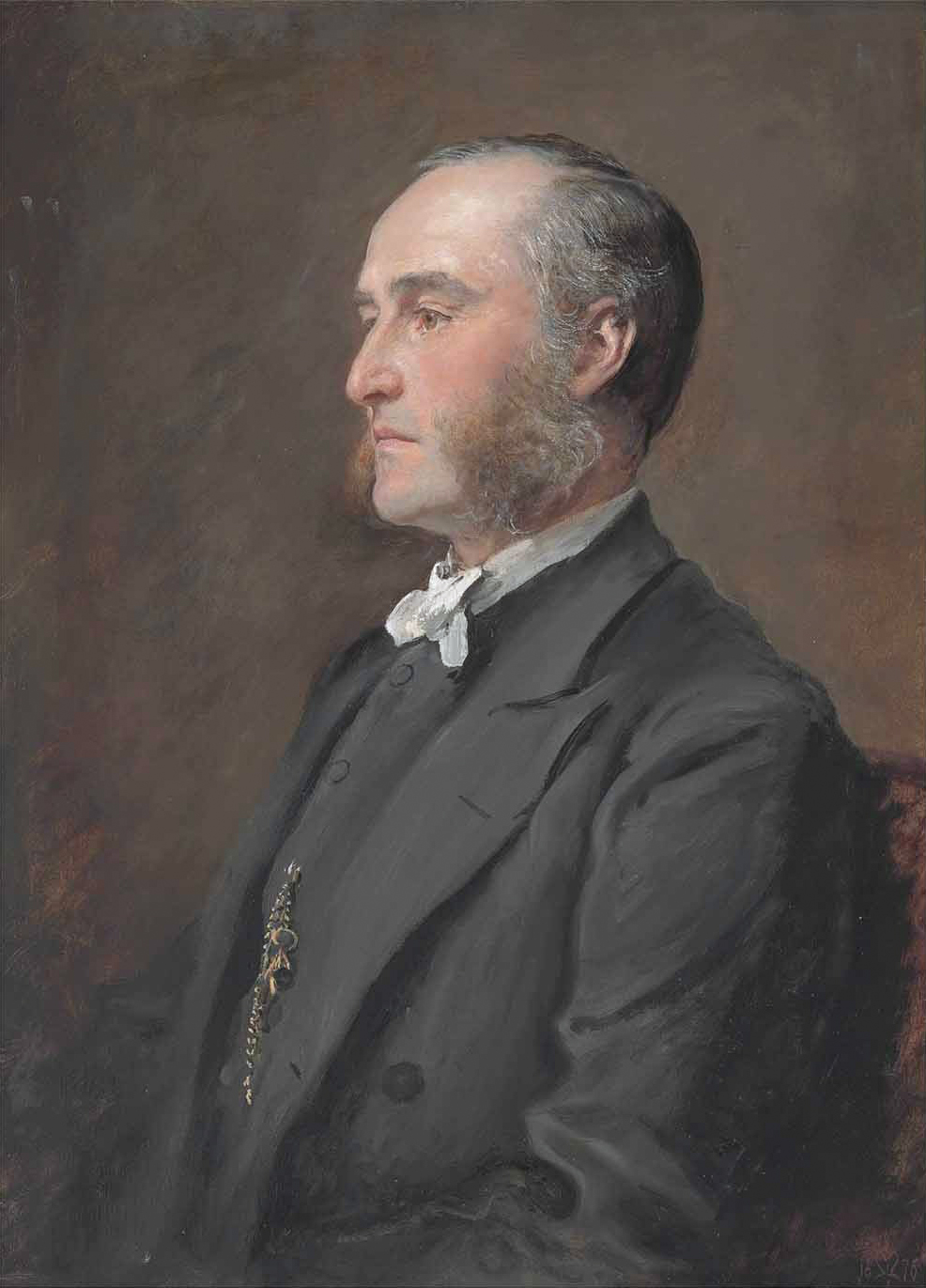 Thomas Jex-Blake oil on canvas 75.5 x 55.5 cm signed b.r.: monogram 1875